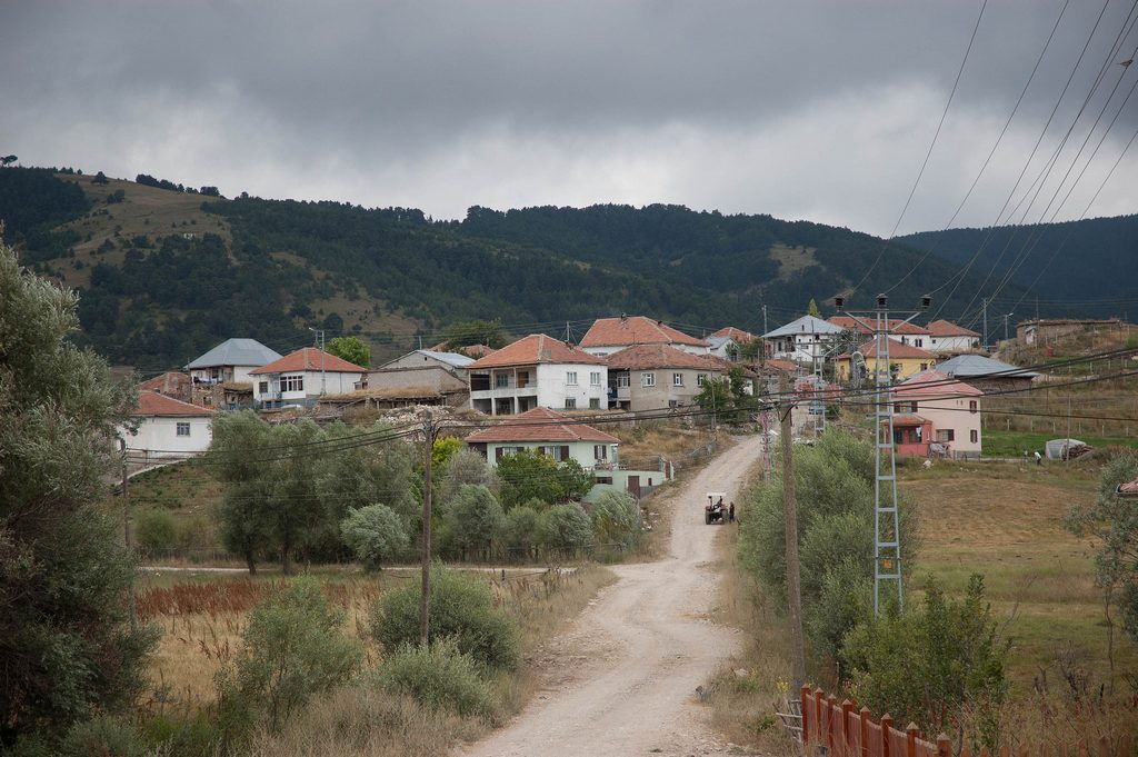 The village of Bozhoyuk, east of Akdagmadeni, 2011